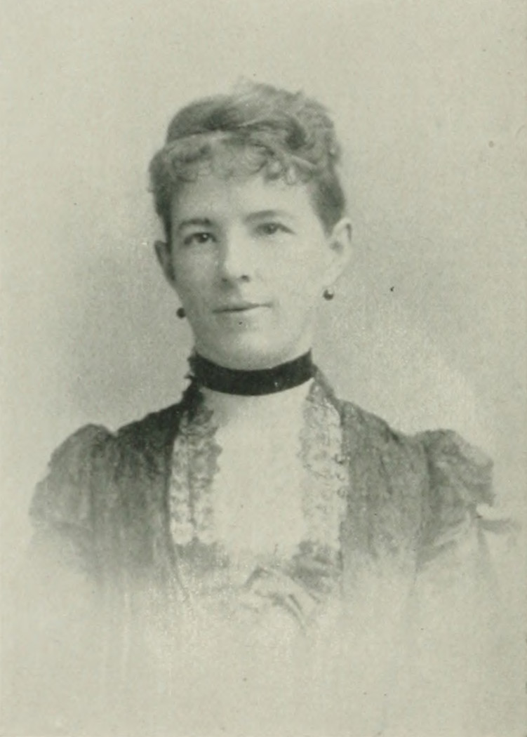 one of the Women of the Century